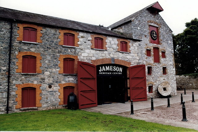 Midleton - Jameson Heritage Centre and Distillery Location is at Distillery Road, just east of Main Street. This old distillery, once the home of Jameson Irish whiskey, offers a 1-hour guided tour that begins with an audio visual presentation, followed by a walk through this restored industrial facility that includes a fully operational water wheel that was used to operate equipment, large grain stores, mills, malting houses, still houses, old offices & warehouses, and the largest pot still in the world. The tour ends with a whiskey tasting session and comparison of various whiskeys and some time in the gift shop.